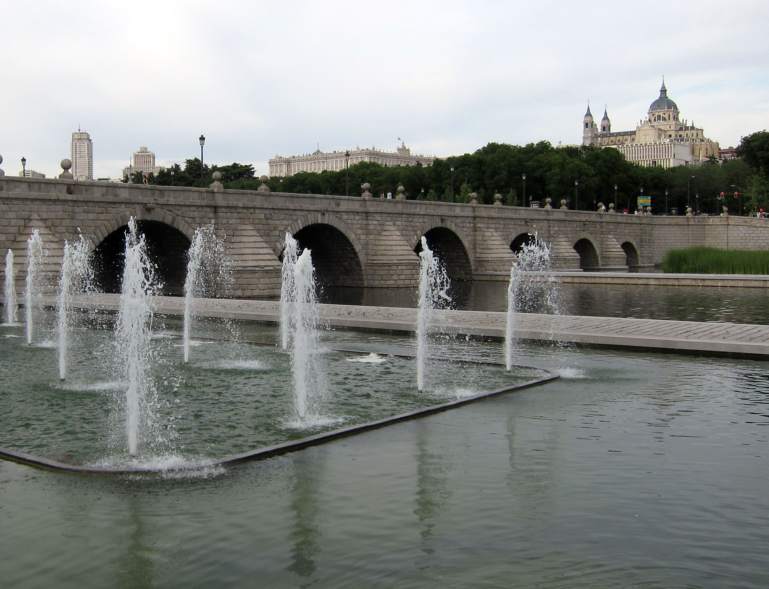 Río Manzanares passing through Madrid